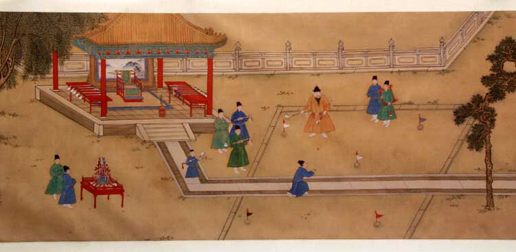 Ming Xuande Xing Le Tu, collection of the Palace Museum (Forbidden City). The Ming Emperor Xuande playing a game that looks like golf, called chuiwan.